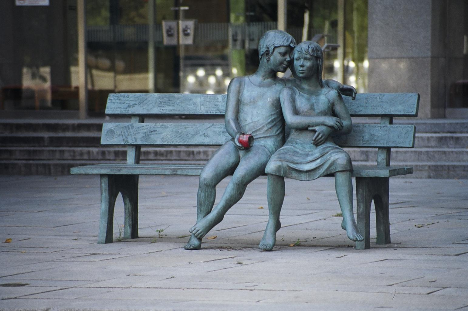 Sculpture by Lea Vivot named 'The Secret Bench of Knowledge' - in front of LAC BAC in Ottawa